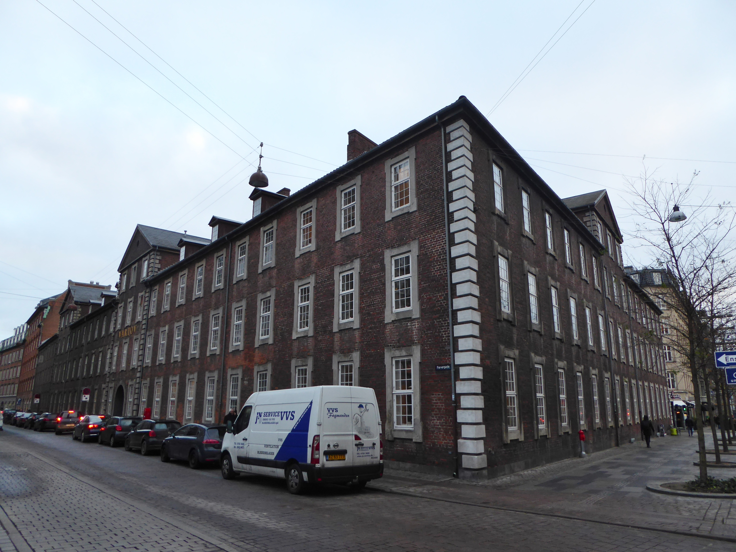 The building Vartov at the corner of Farvergade and Vester Voldgade in Indre By in Copenhagen.